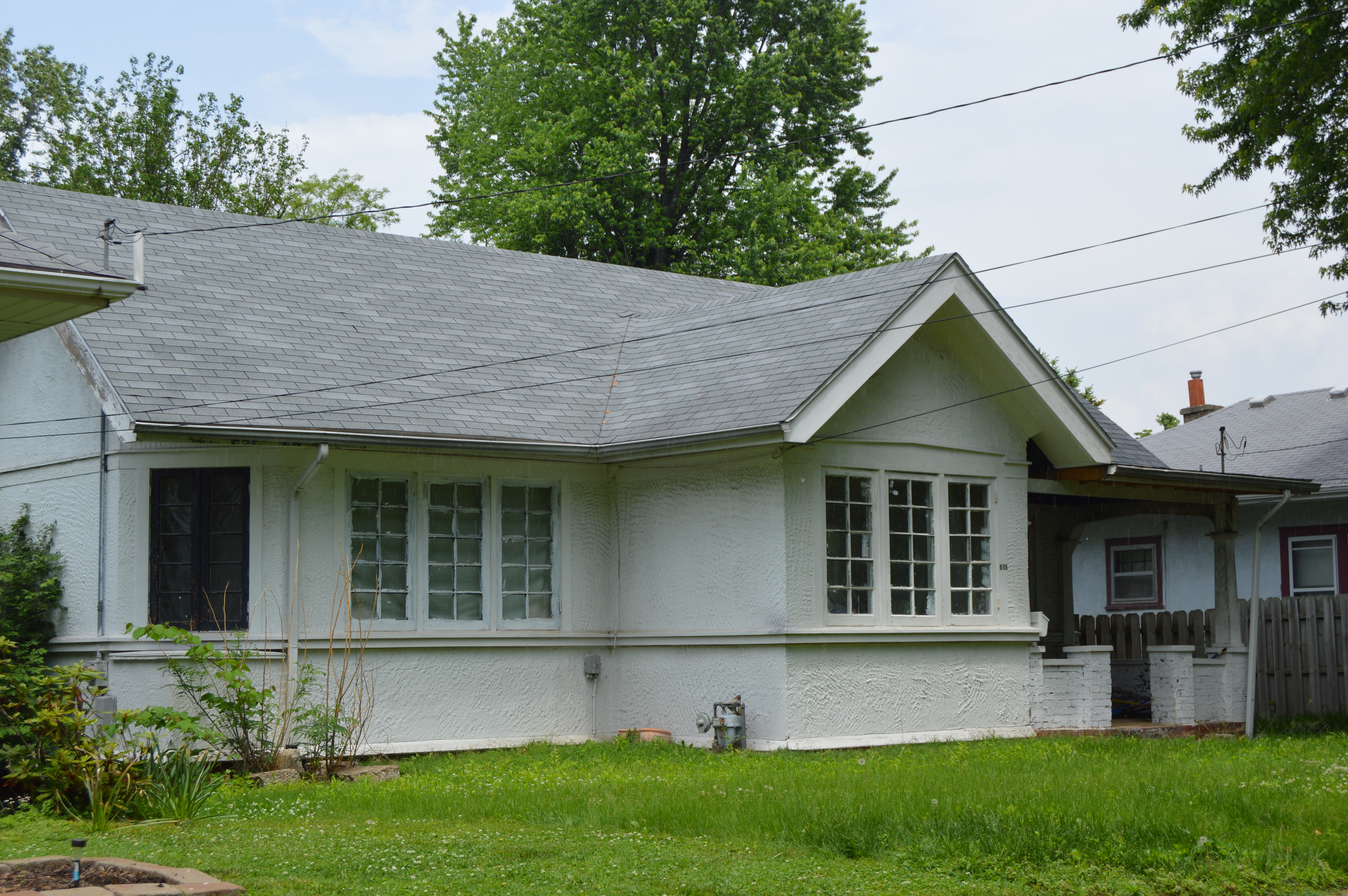 Front and western side of the Edwardsville Chapter House of the American Women's League (now a private residence), located at 515 W. High Street in Edwardsville, Illinois, United States. Built in 1909, it is listed on the National Register of Historic Places.